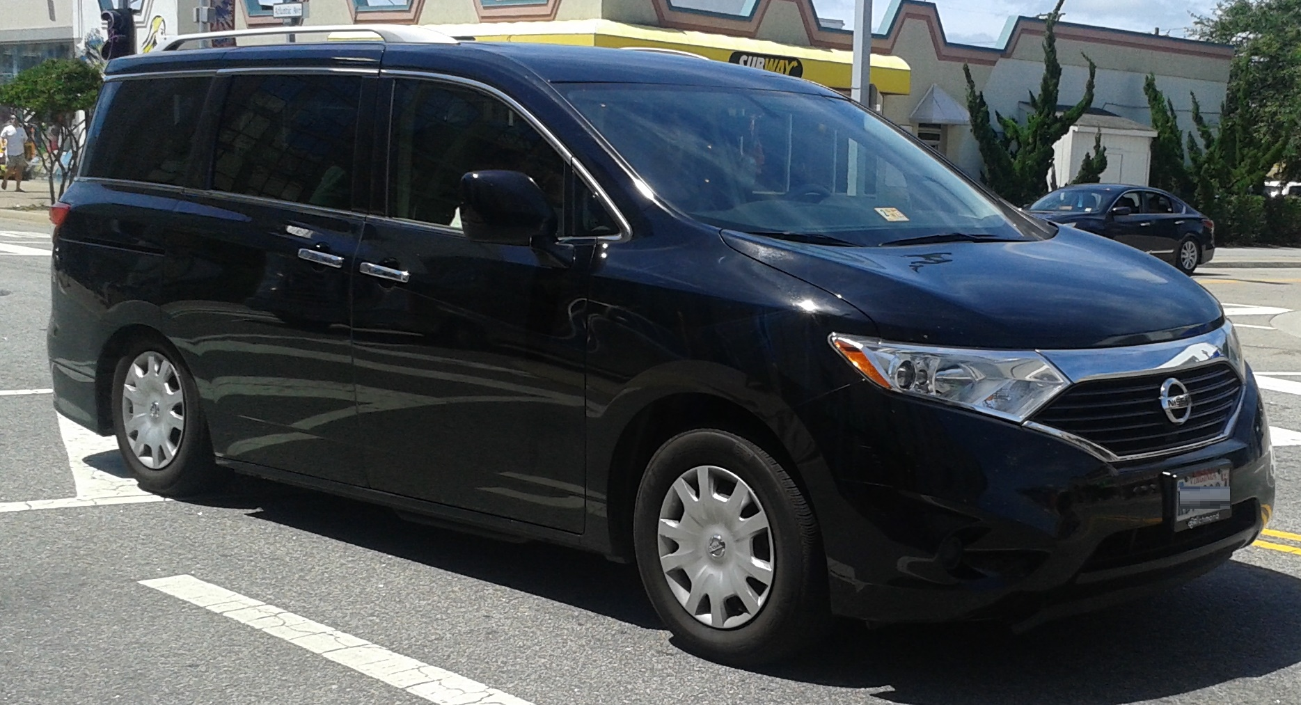 Nissan Quest photographed in Virginia Beach, Virginia, USA.